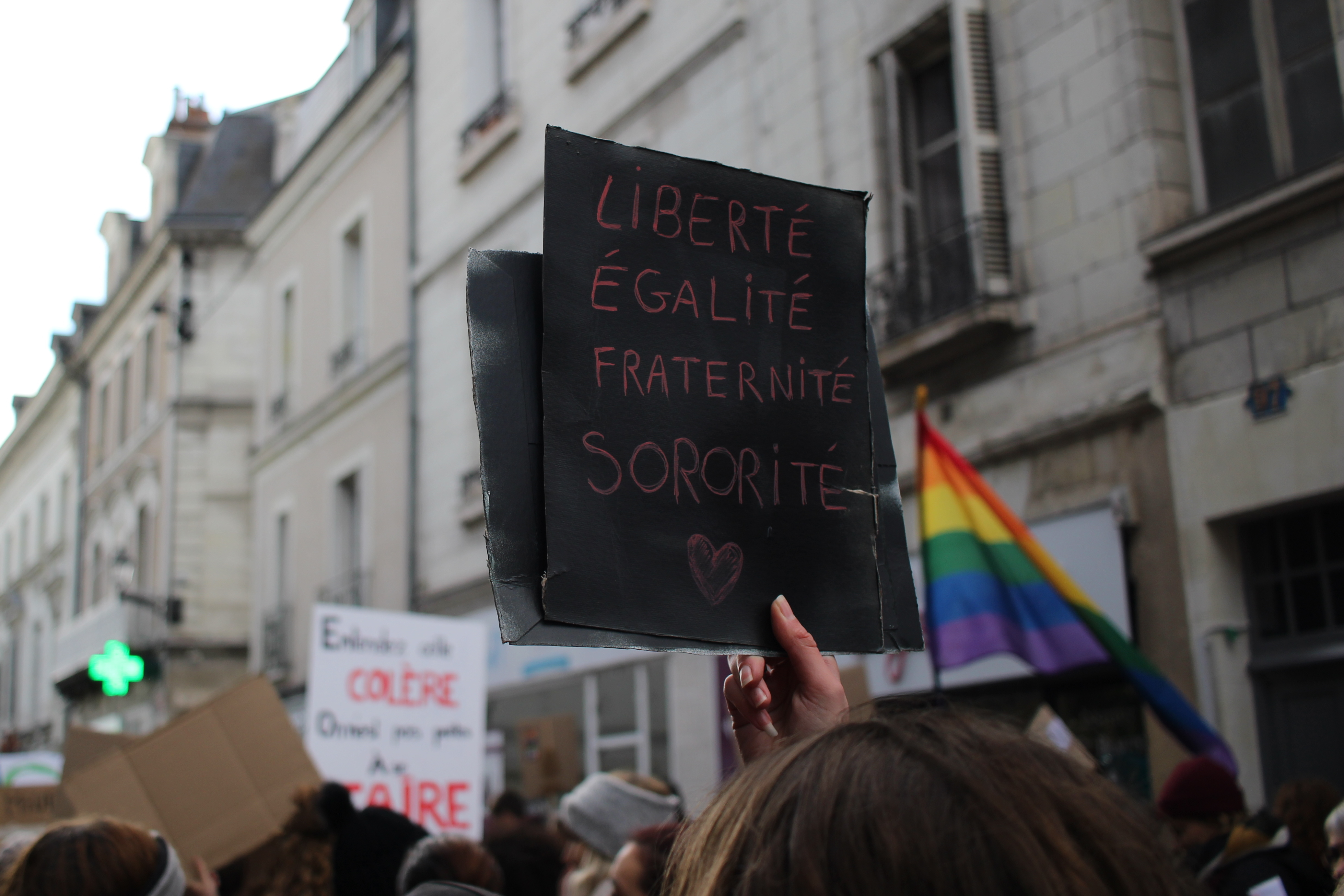 Protest for women's rights #NousToutes in Tours (France), 24 November 2018.